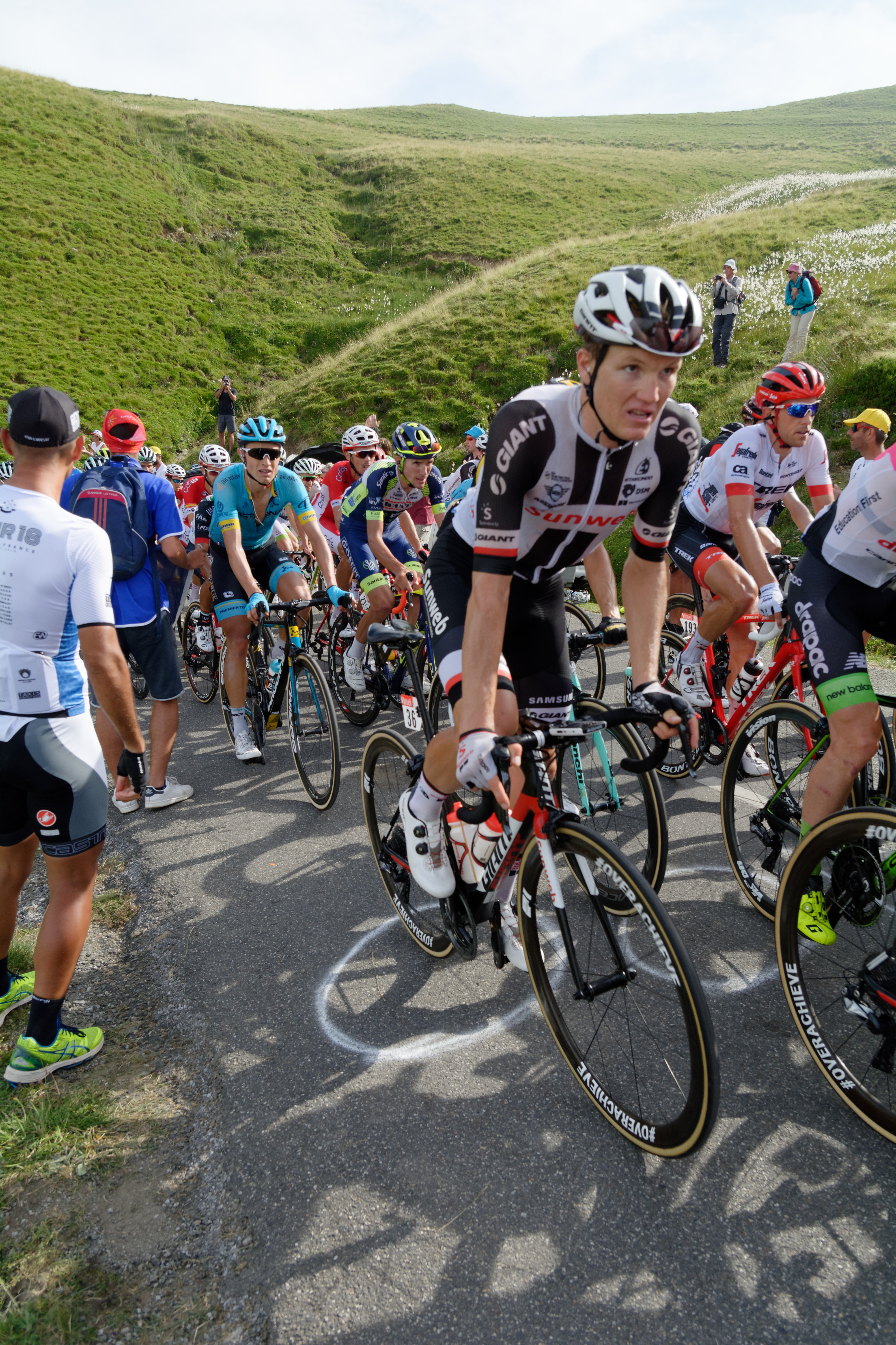 2018 Tour de France